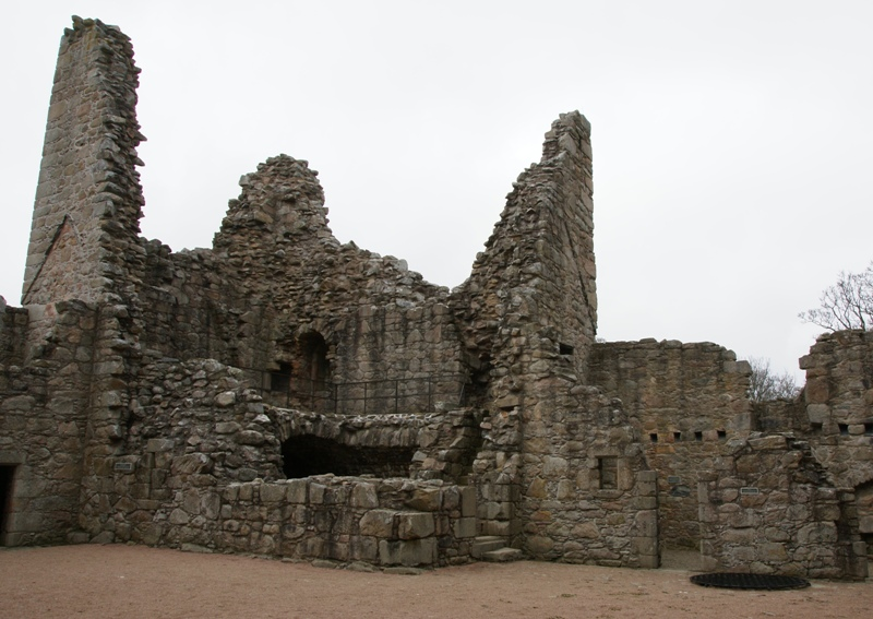 Tolquhon Castle, Aberdeenshire, Scotland - Preston's Tower seen from the inner court